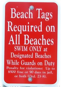 sign in front of beach in Cape May. released into the public domain